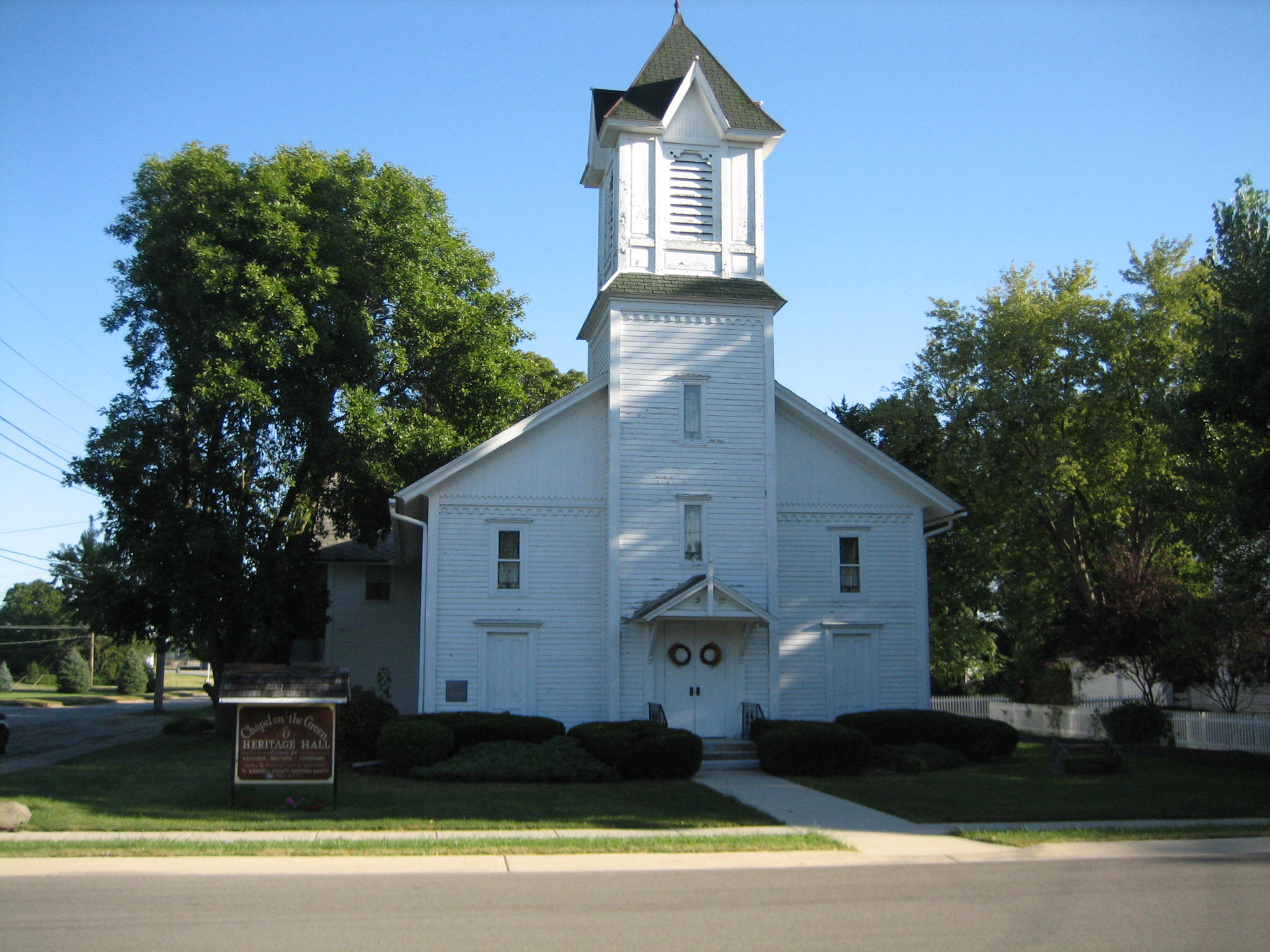 Chapel on the Green, Yorkville, Illinois, USA. Kendall County's oldest extant church.